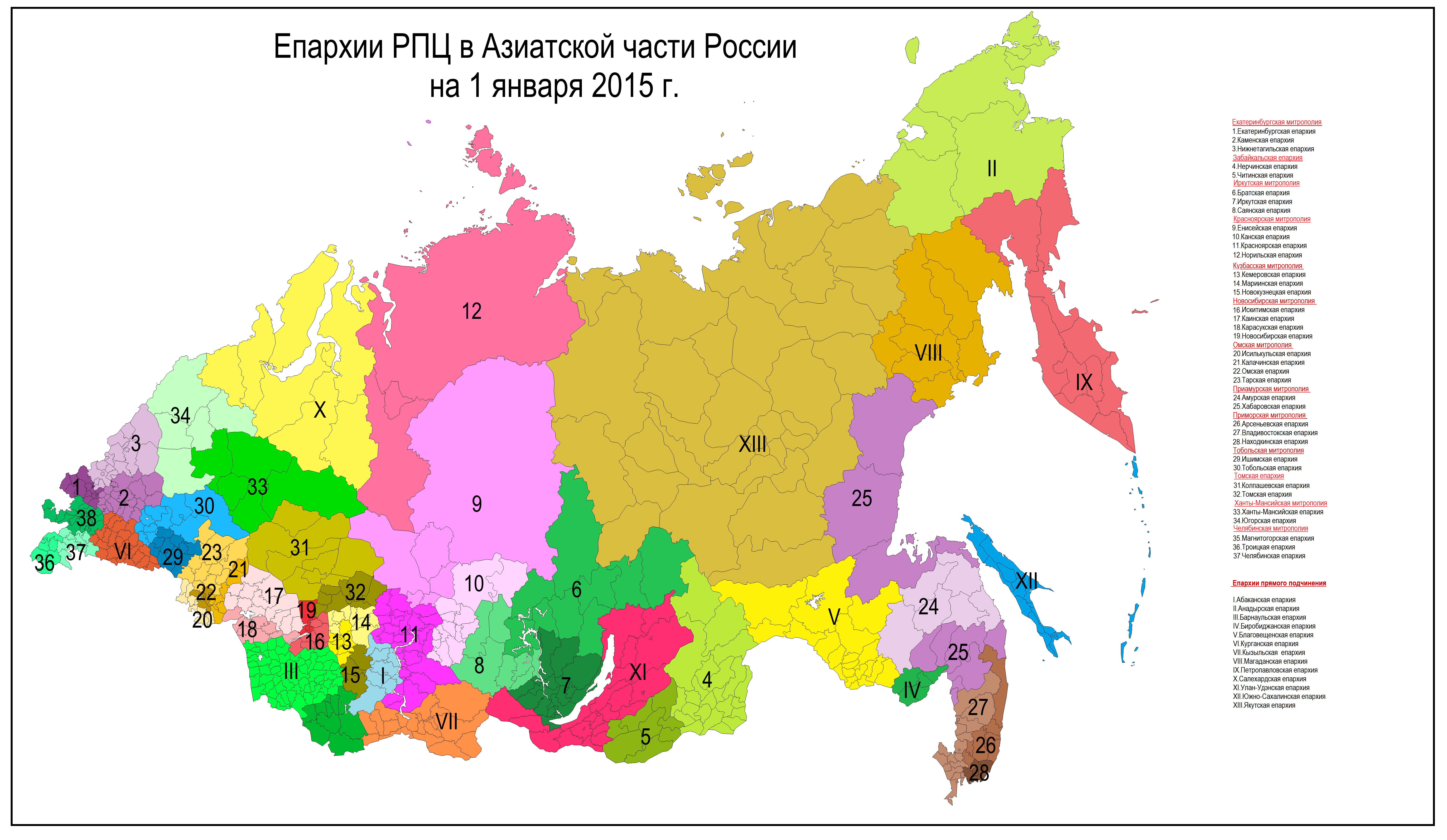 Diocese of the Russian Orthodox Church (Asian part of Russia) on 01.01.2015